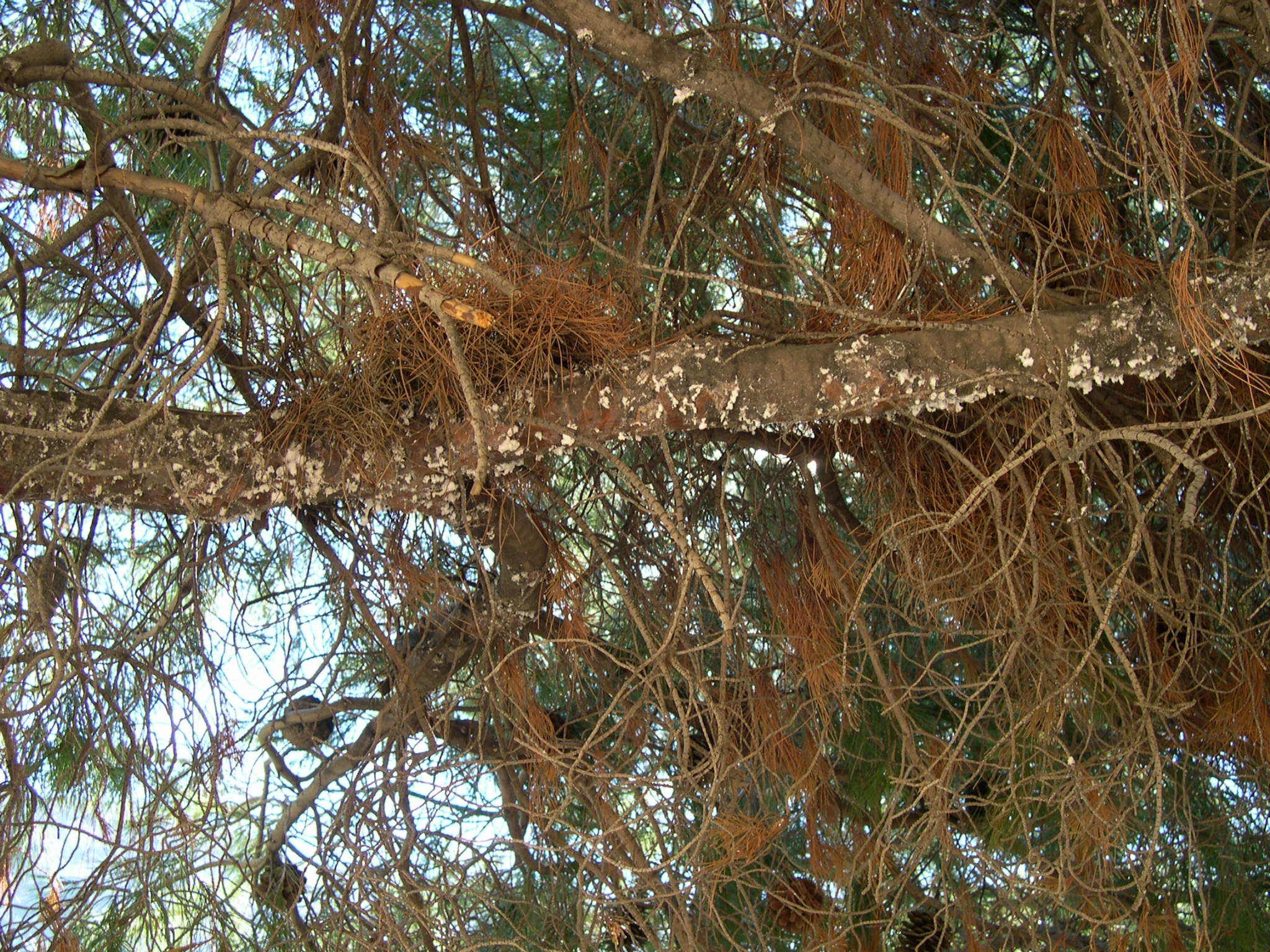 A Turkish Pine (Pinus brutia) tree branch covered with Marchalina hellenica (scale insect) honeydew. On a mountain in Ymittos, a suburb of Athens, Greece. Credits Picture taken by User:Diomidis Spinellis on mountain in Ymittos, Greece. Picture metadata CAMERA : E4300V1.5 METERING : MATRIX MODE : P 8 EXP +/- : 0.0 FOCAL LENGTH : f8.0mm(X1.0) IMG ADJUST : AUTO SENSITIVITY : AUTO WHITEBAL : AUTO SHARPNESS : AUTO DATE : 09.01.2005 14:03 QUALITY : 2048x1536 NORMAL FOCUS AREA : CENTER